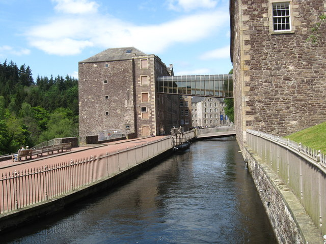 Mill lade and mill buildings at New Lanark